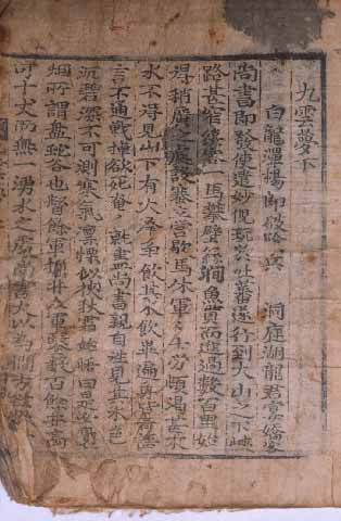 KuWoonMong - Korea Literature